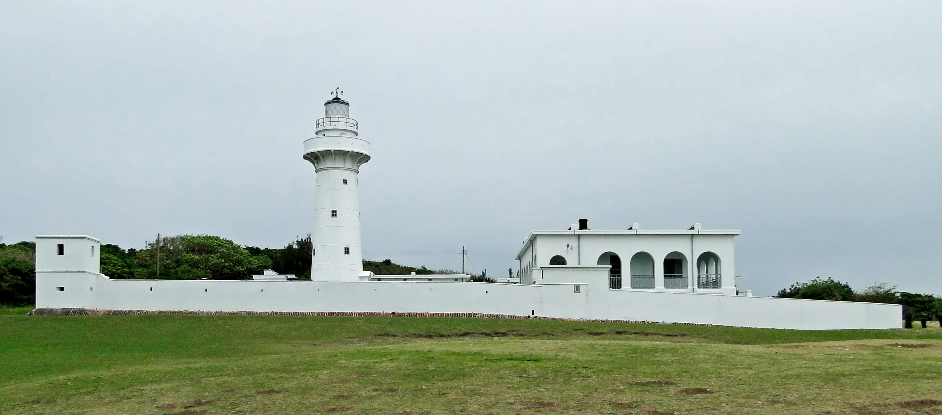 Eluanbi Lighthouse, Kenting National Park , Taiwan